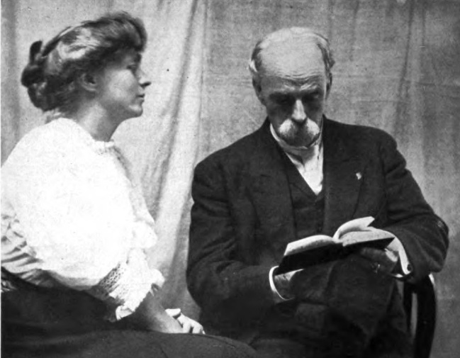 A white woman and a white man, seated. The woman, in profile, has her hair arranged in a bouffant updo, and is wearing a white blouse with puffy sleeves. The man, older, is bald, wears a mustache and a dark suit, and has his head bent to read a book.